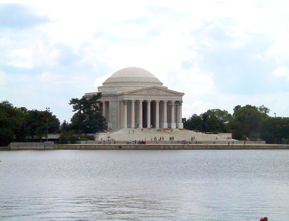 Jefferson Memorial in Washington, DC, see from across the Tidal Basin of the Potomac River